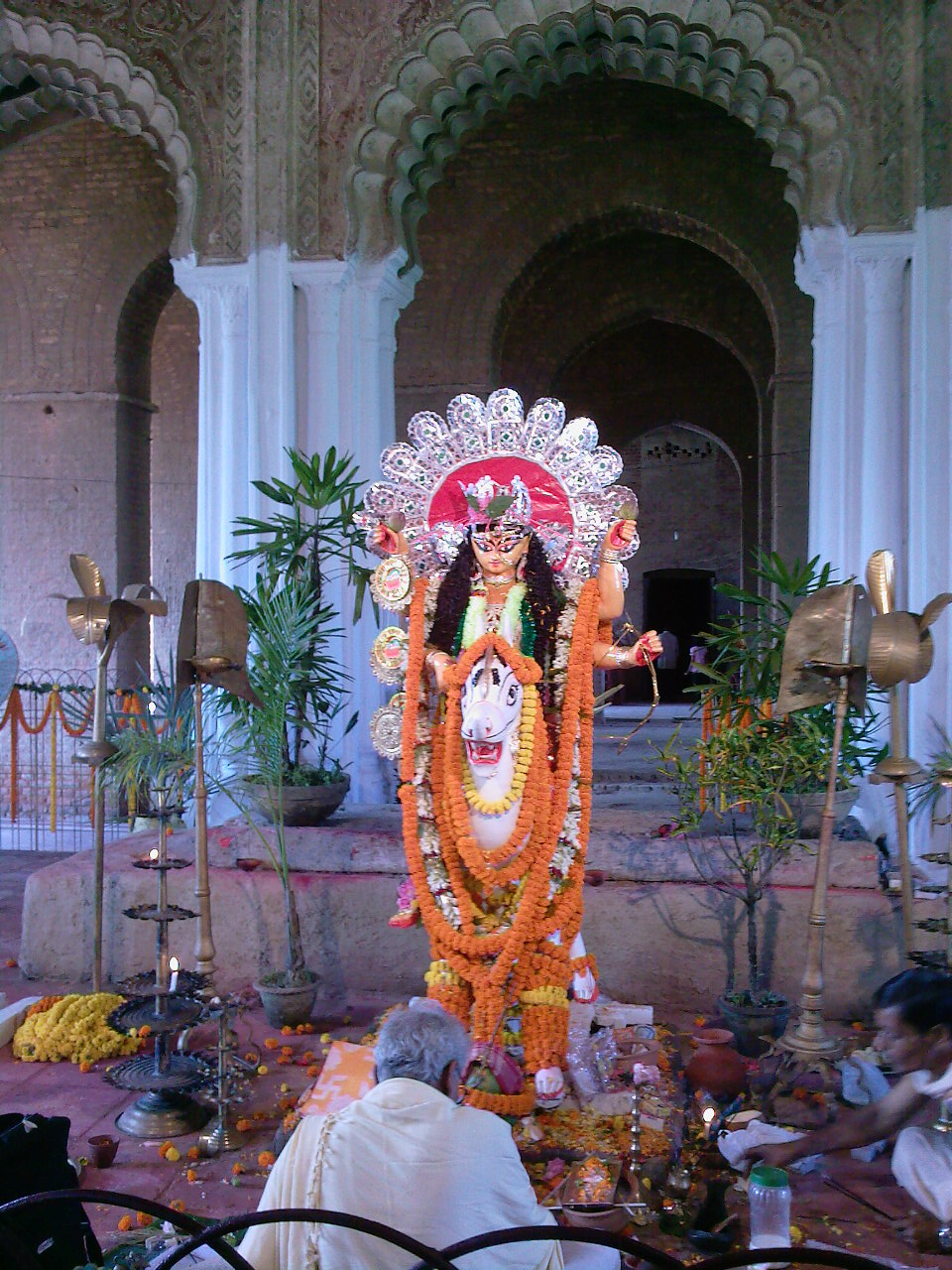 Jagaddhatri Puja at Krishnanagar Royal Palace. This puja is Bengal's oldest Jagaddhatri Puja. (Special Courtesy: Usnik Tarafdar)